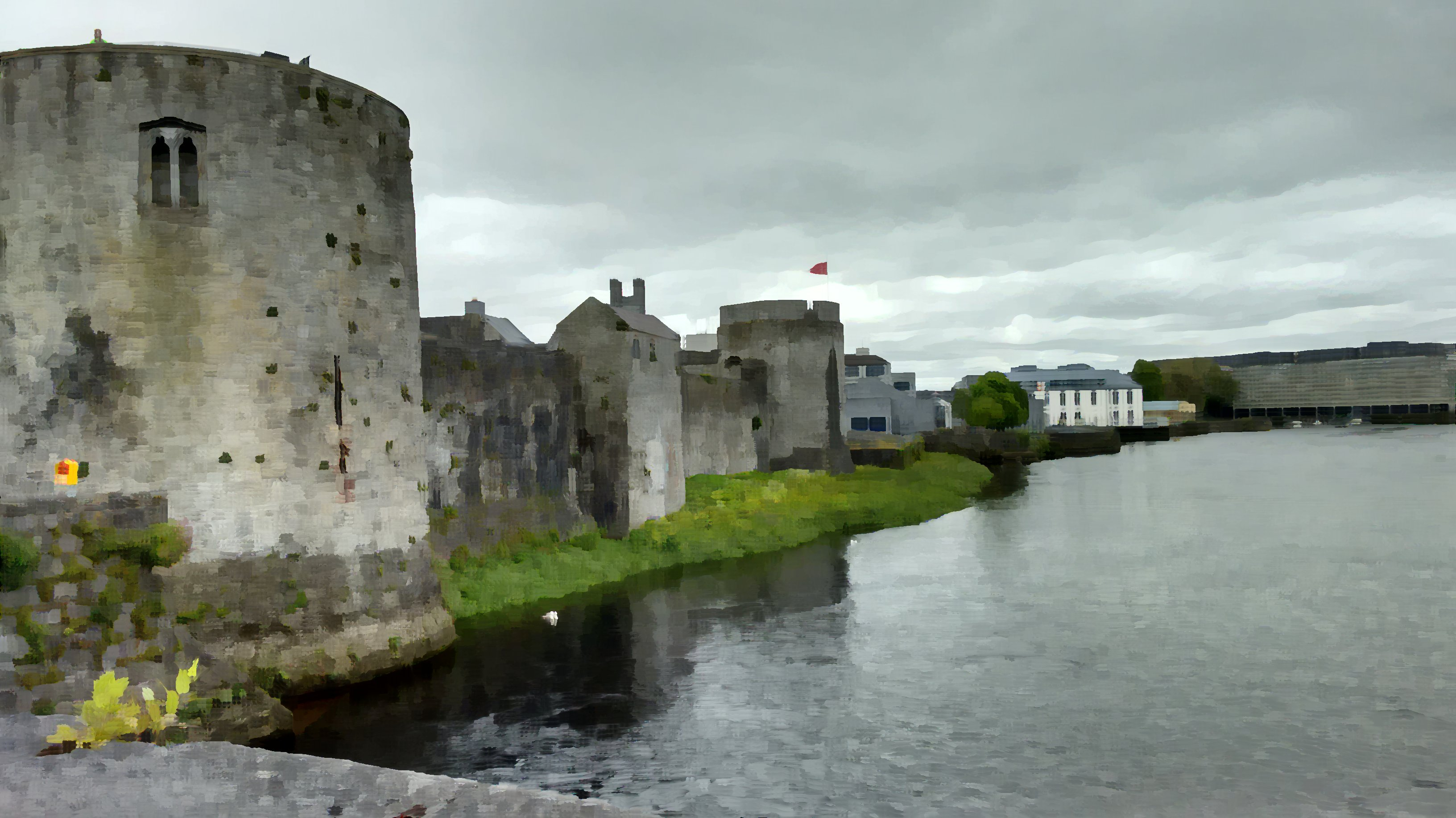 Imagem com filtro de Kuwahara aplicado com fator de 21